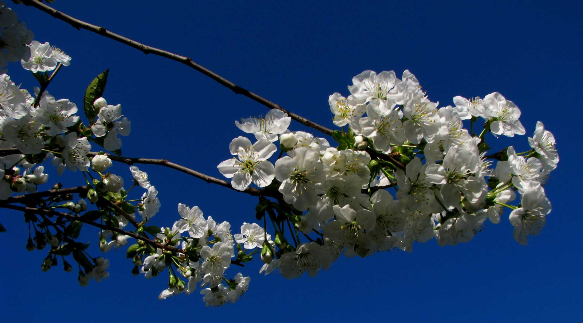 Cherry flowers